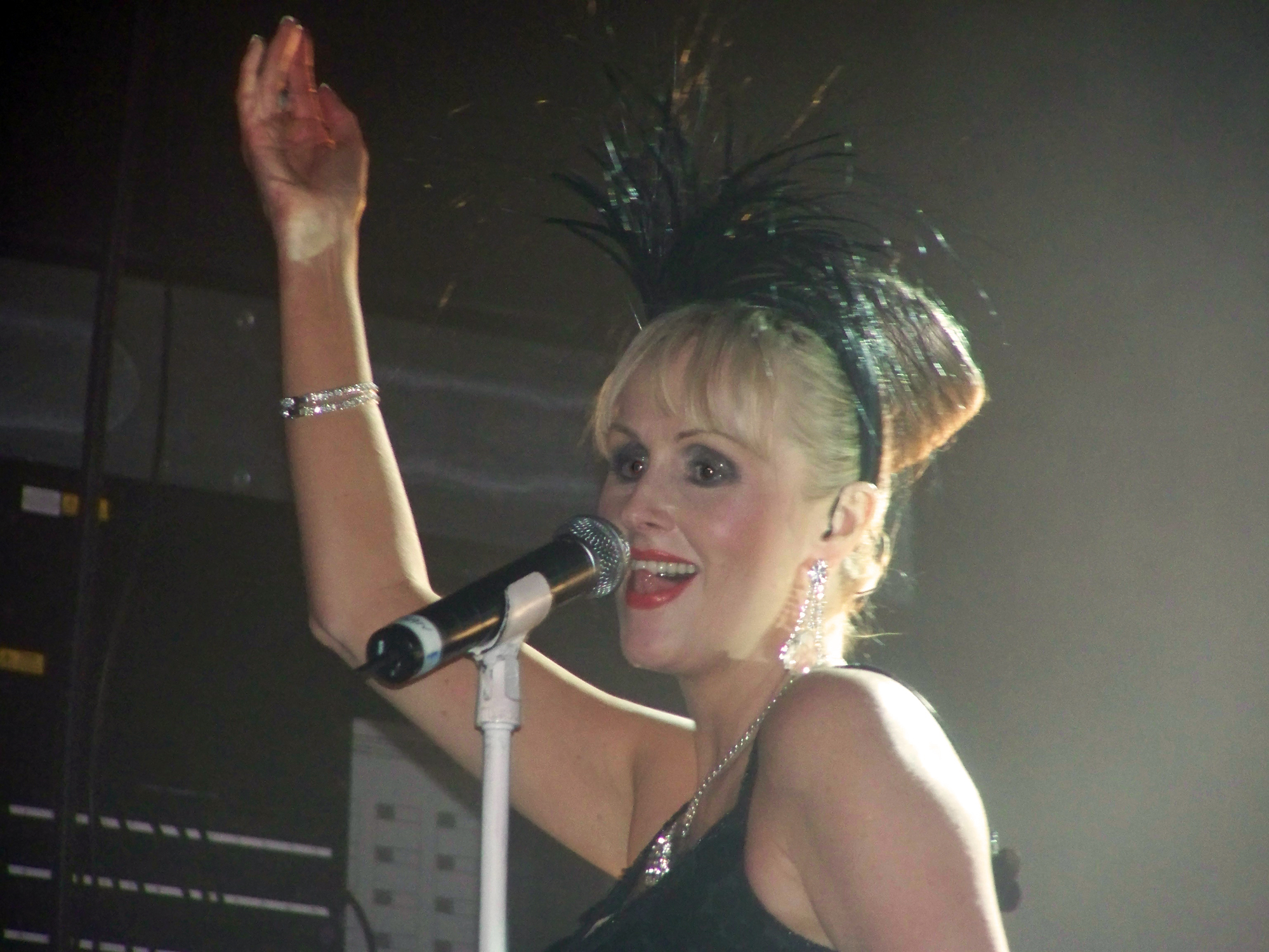 Susan Ann Sulley of The Human League at the Sheffield Carling Academy 20/04/08